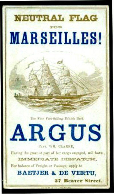 poster indicating the ship Argus with the saying: Ship of neutral flag